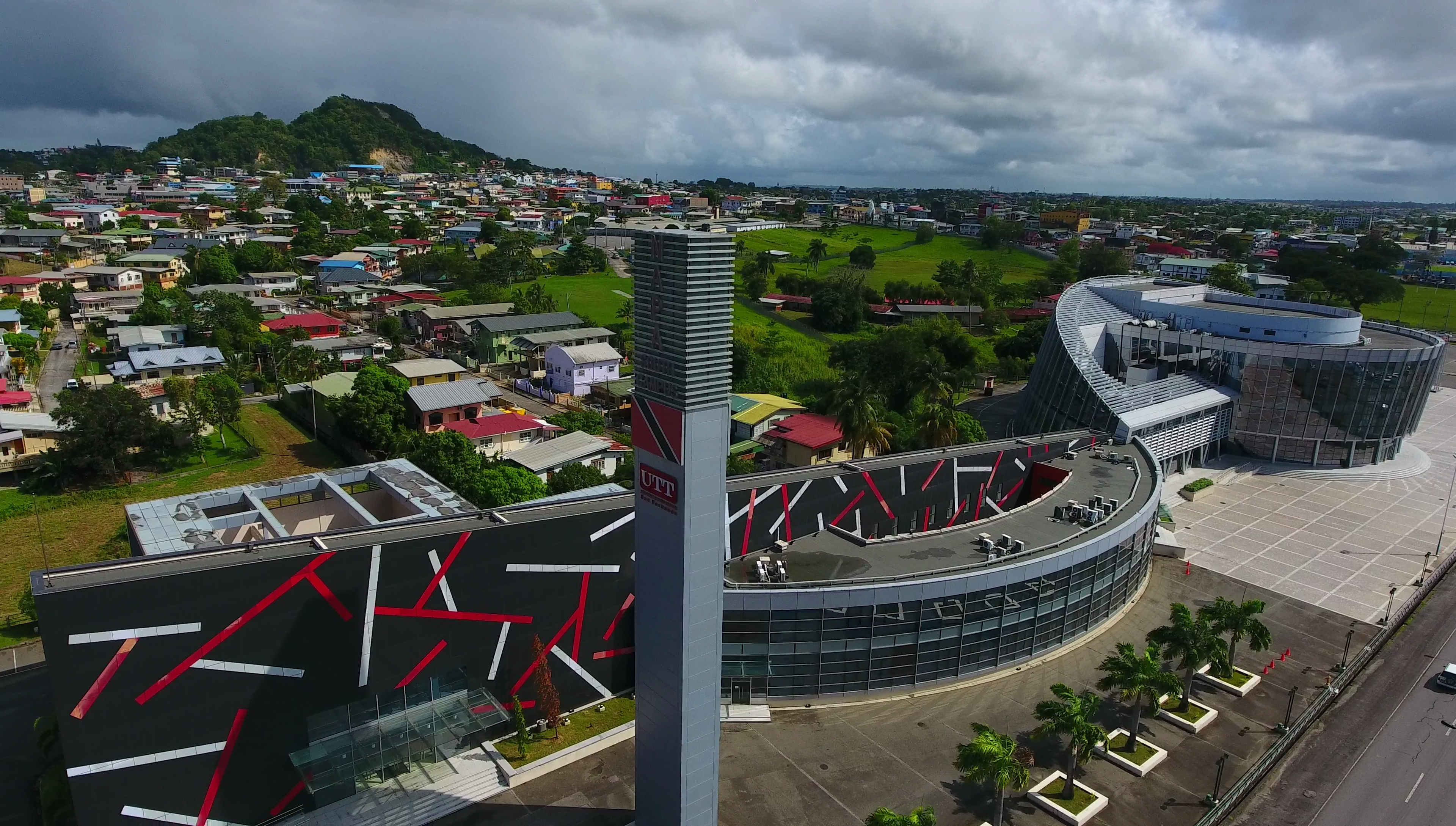 Left: University of Trinidad and Tobago (UTT) San Fernando campus. Right: Southern Academy for the Performing Arts (SAPA). San Fernando, Trinidad and Tobago. Note how the building ensemble forms an actual clef. Photo taken as part of the Southern Trinidad Aerial Photo Project, a small project sponsored by WMDE. Drone used: DJI Phantom 4. Snapshot taken from video footage via VLC.